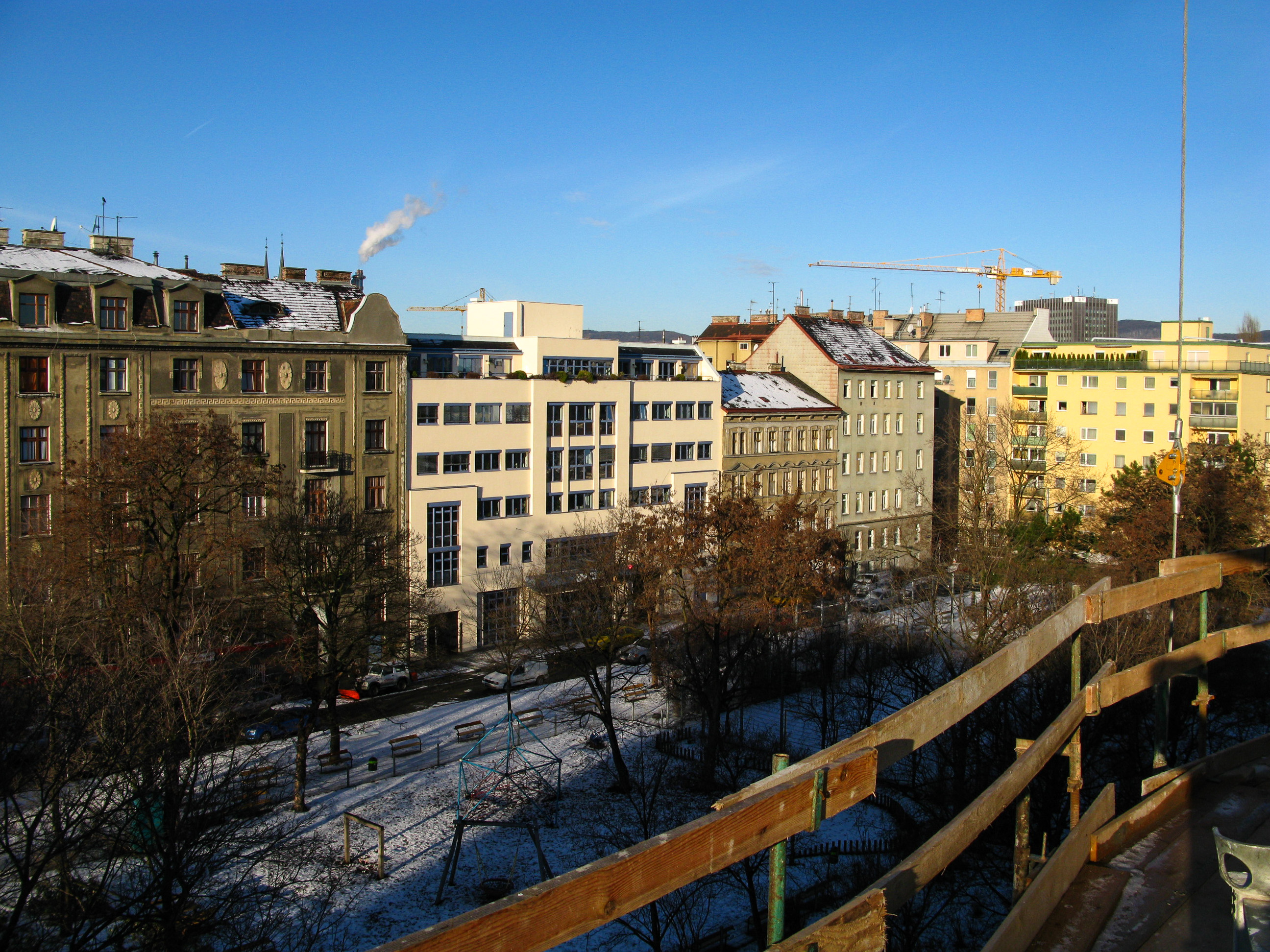 The Sachsenpark in the upper part of Wallensteinstraße in the 20th district of Vienna Brigittenau / Austria / EU. View towards the west.